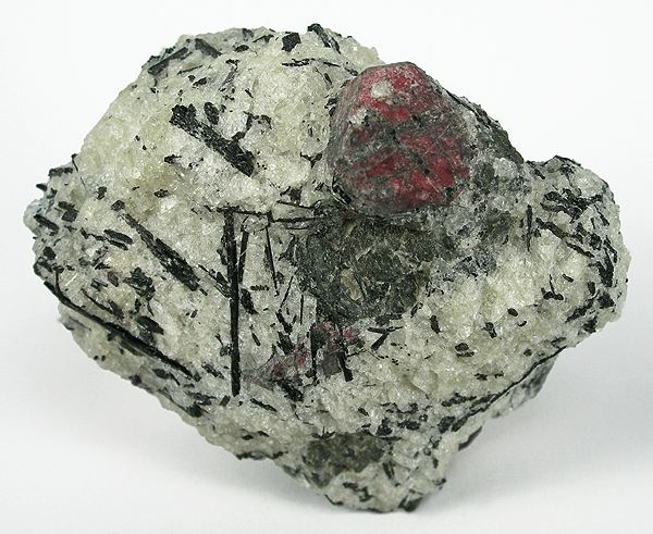 Eudialyte, Aegirine Locality: Yukspor Mt, Khibiny Massif, Kola Peninsula, Murmanskaja Oblast', Northern Region, Russia (Locality at ) Size: 5.4 x 4.3 x 2.6 cm. A rare, excellent combination specimen of a fairly large, 1.4 cm, lustrous, carmine-red eudialyte crystal embedded atop contrasting matrix richly inset with lustrous aegirine blades from the Khibiny Massif of Russia. Eudialyte is a rare sodium, calcium zirconium silicate found only in unusual igneous terrains, such as nepheline syenites and alkalic granites. This is an exceptional and showy example of this rare species from this locality. Usually they are without lustre. It’s an important piece. These came out in the 1990s.